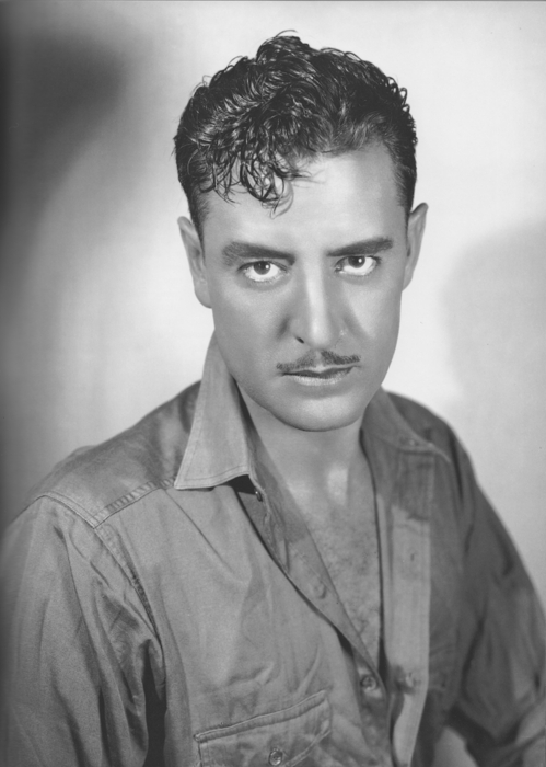 John Gilbert